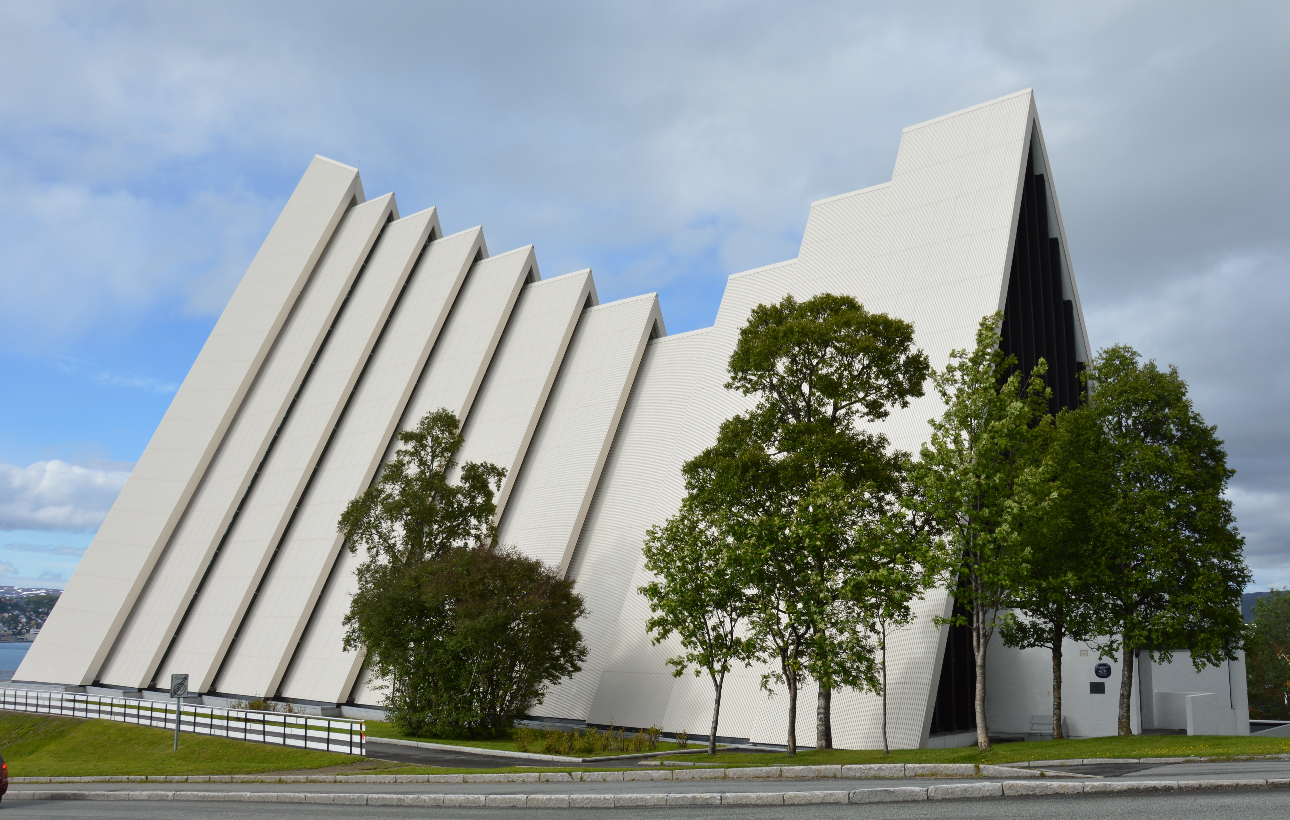 The Arctic Cathedral in Tromsø, Troms in 2017.